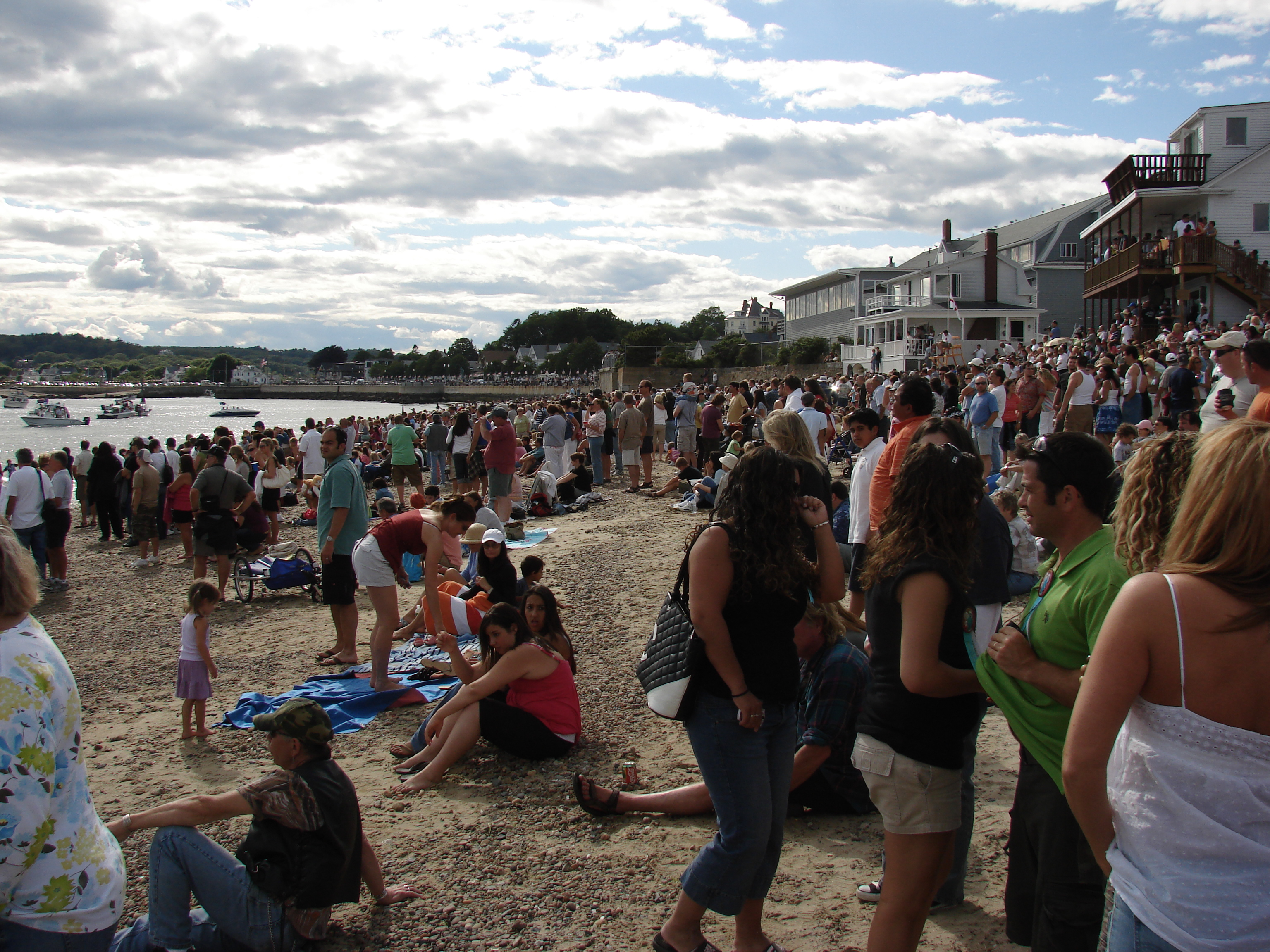 Crowd watching the Greasy Pole from Pavilion Beach in Gloucester during St. Peter's Fiesta.